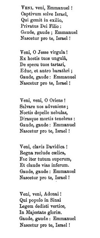 Veni, veni, Emmanuel